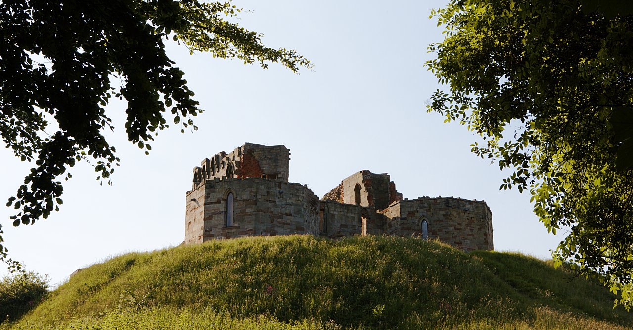 (Giles Jones, )